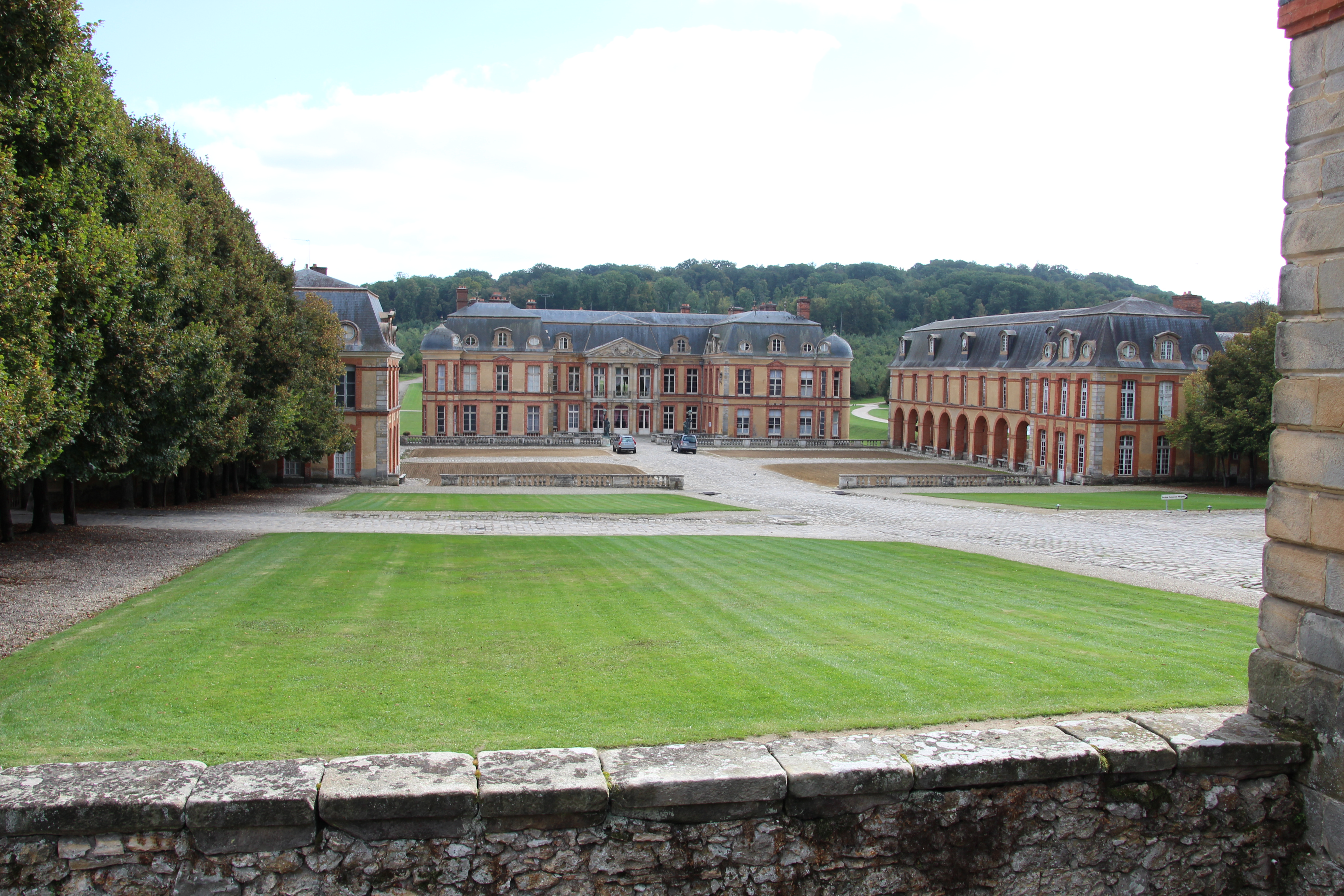 Castle of Dampierre-en-Yvelines, France